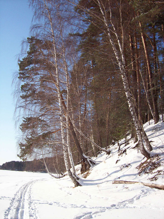 At Lake Sapsho (Ozero Sapsho)